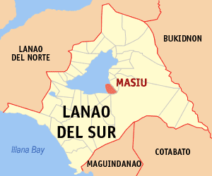 Map of the Lanao del Sur showing the location of Masiu